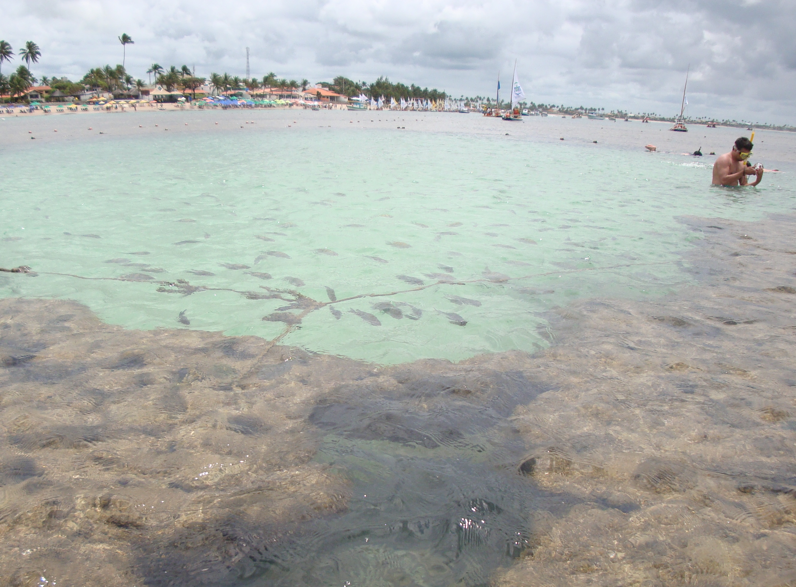 Porto de Galinhas - Ipojuca - Pernambuco - Brazil.